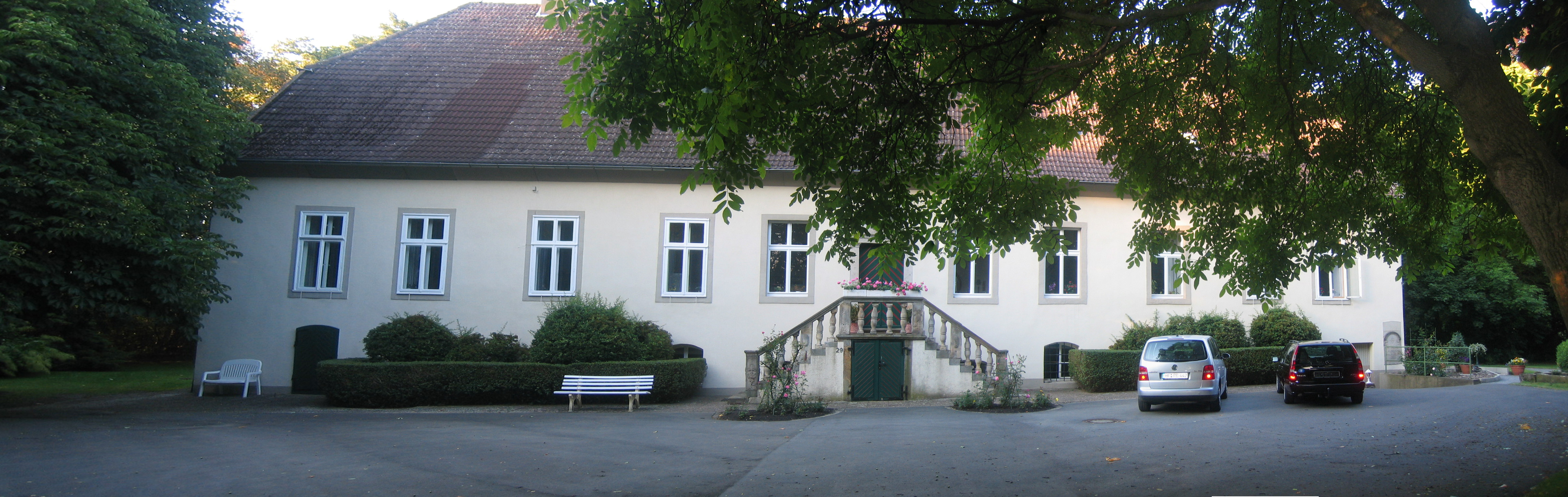 Steinlake Castle in Kirchlengern, District of Herford, North Rhine-Westphalia, Germany.